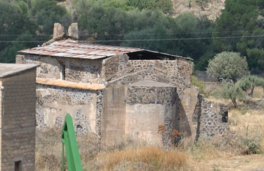 Cappella di Santa Domenica